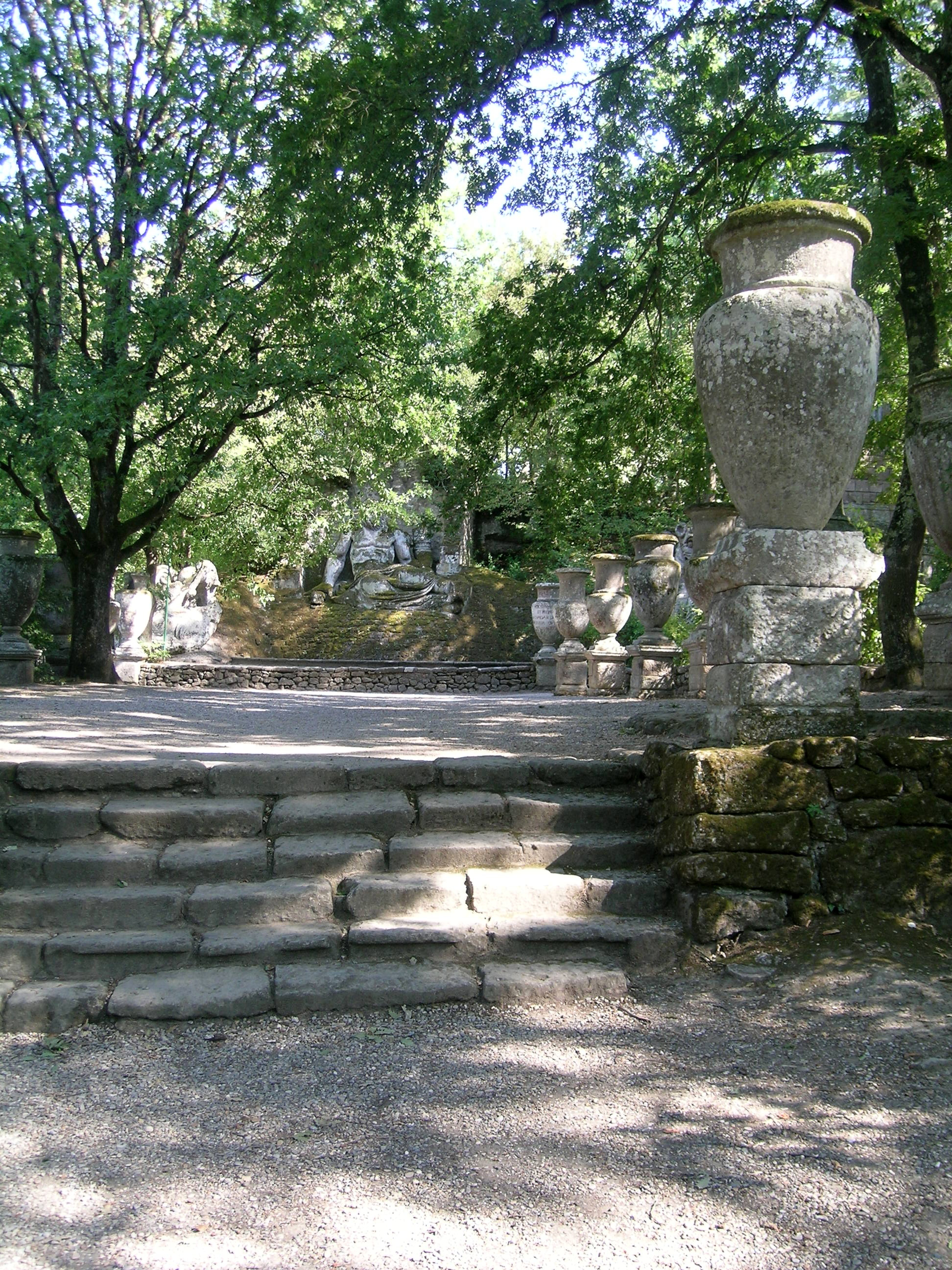 vase square in the park of monsters, close to Bomarzo (Italy)